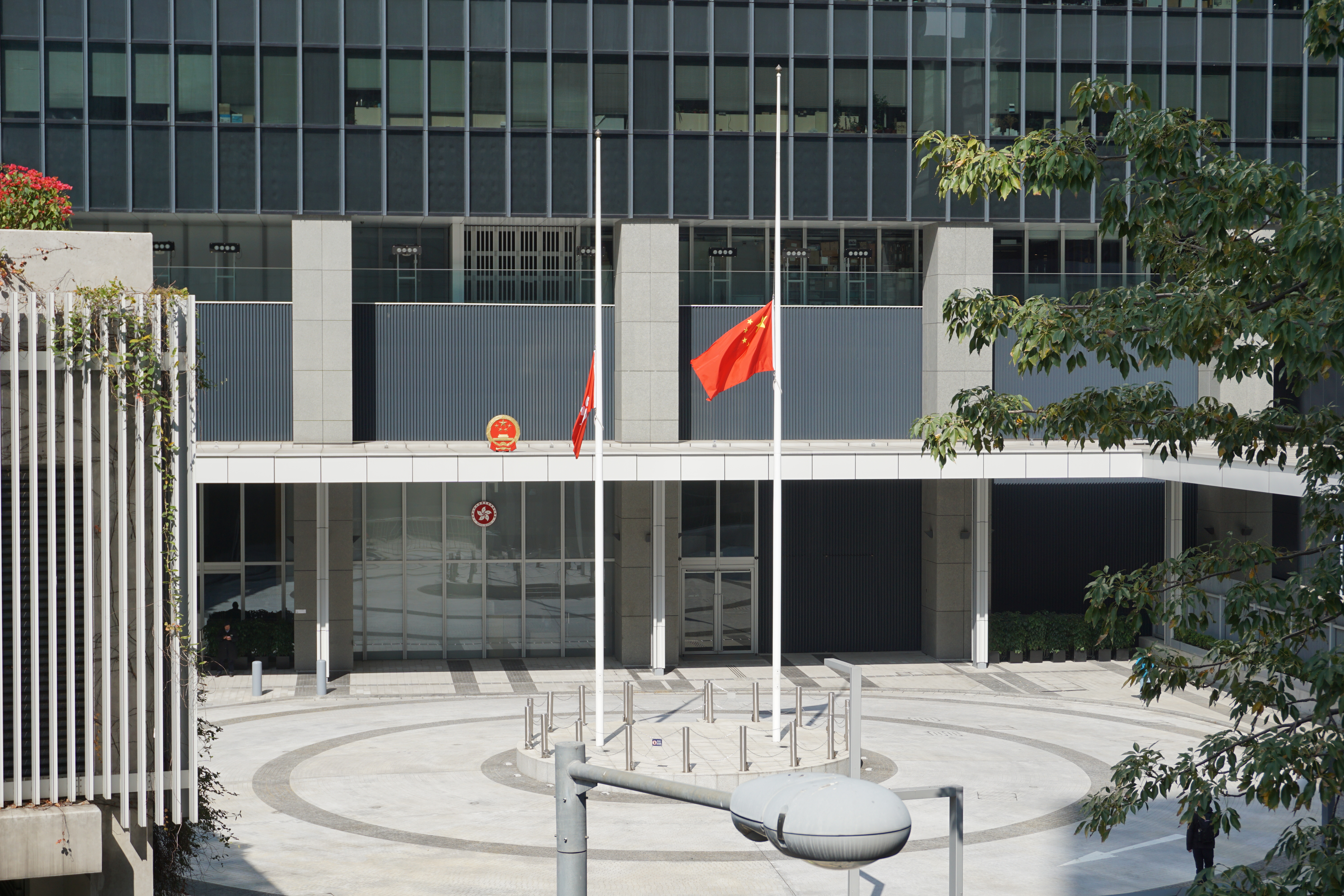 Double-decker Bus Tilted Incident in Tai Po Road, Hong Kong.